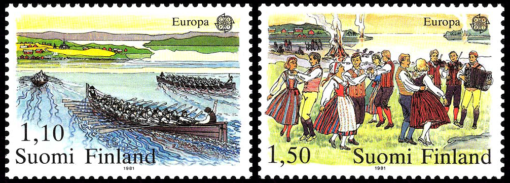 Postage stamps of Finland, 1981. Issue under the EUROPA CEPT program.